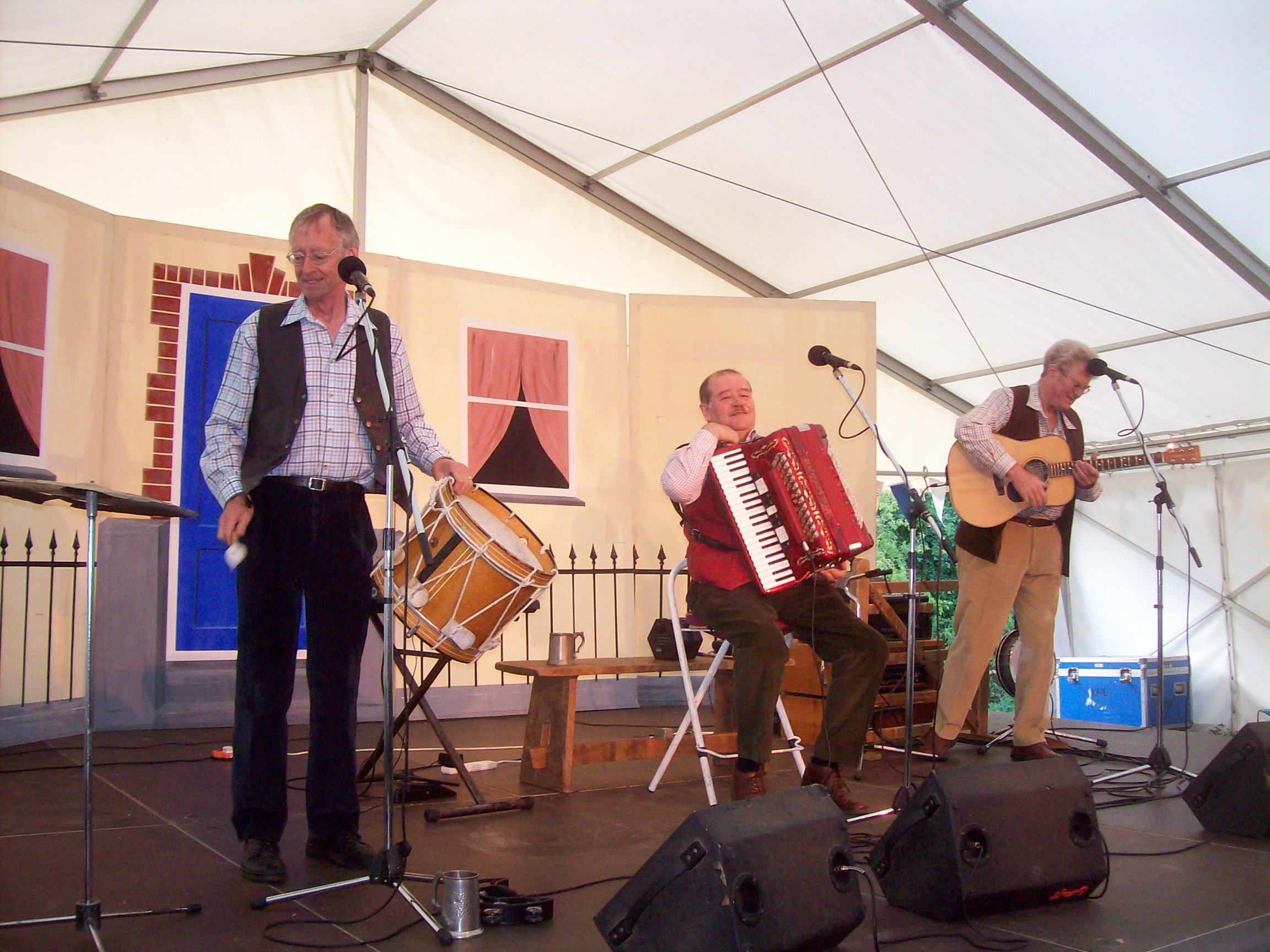 The Folk Group "The Yetties" performing at the Bluebell Railway.